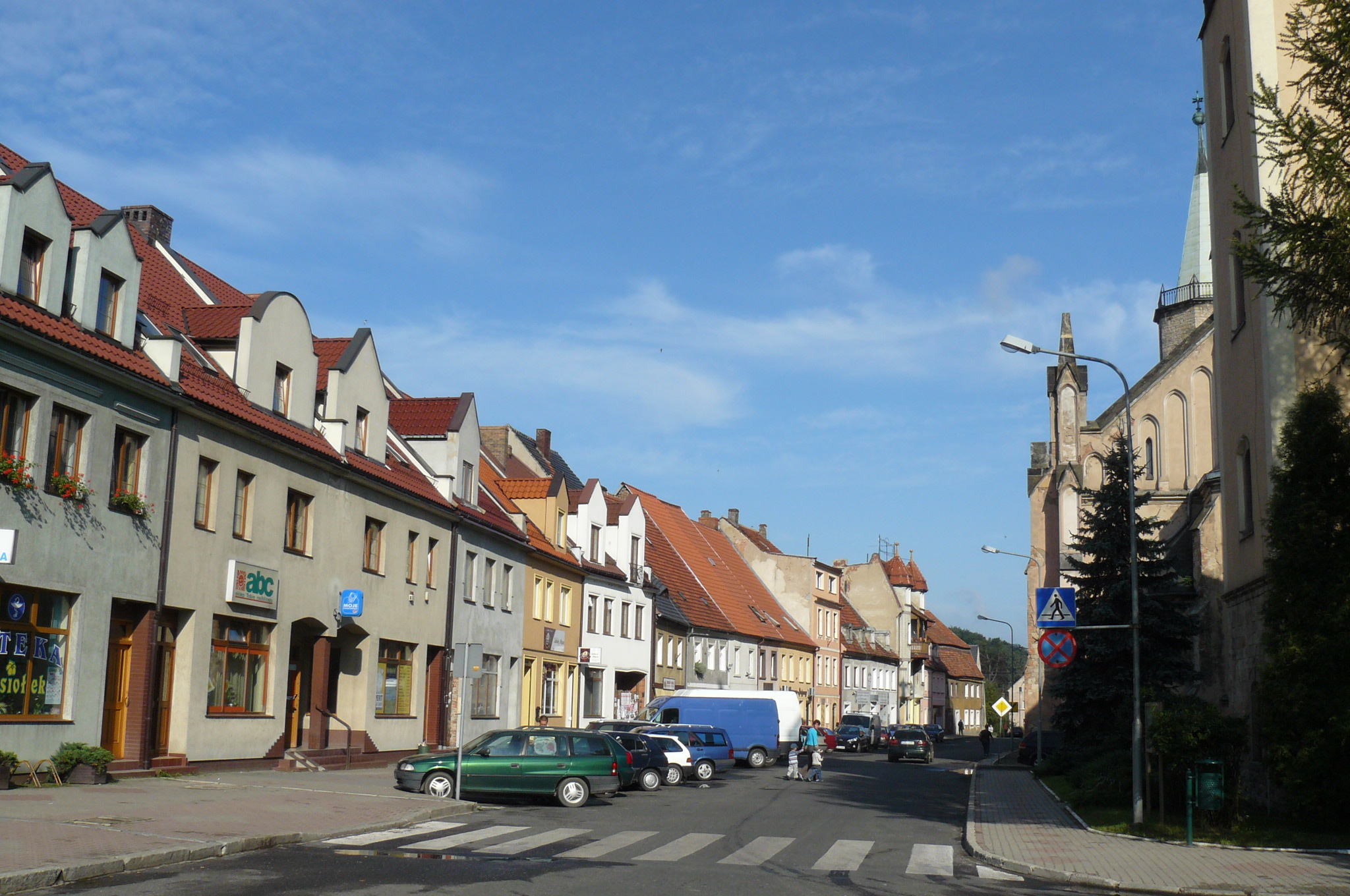 Swierzawa, market square.